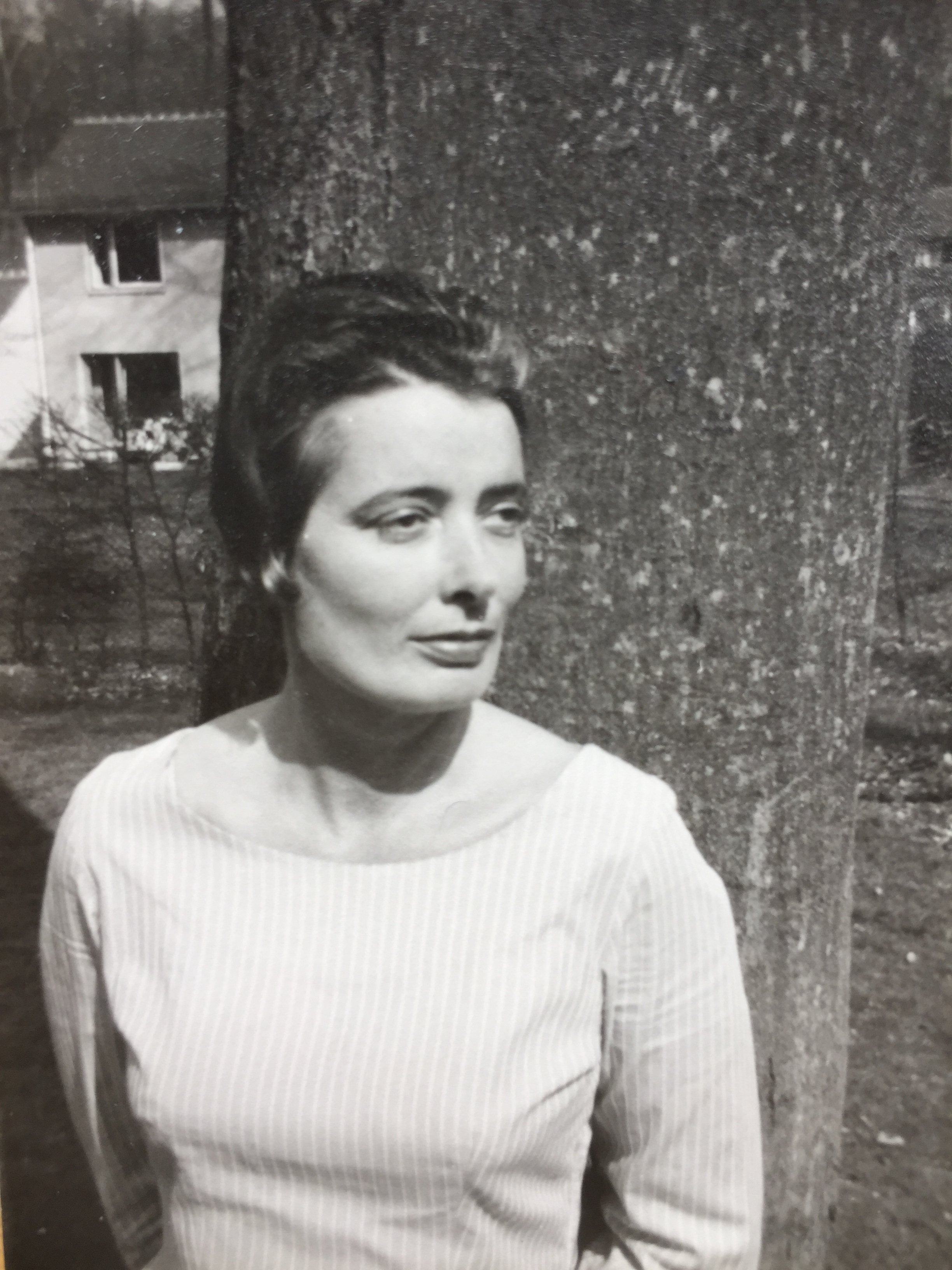 Snapshot of Helena Klostermann 1950, leaning against a tree in the garden of Schillerstr. 13 in Bad Homburg